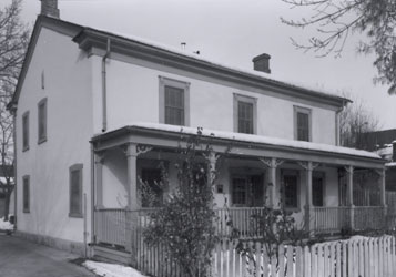 Photograph of the Signature Books offices